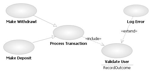 UML examples - use case diagram - use case relationships